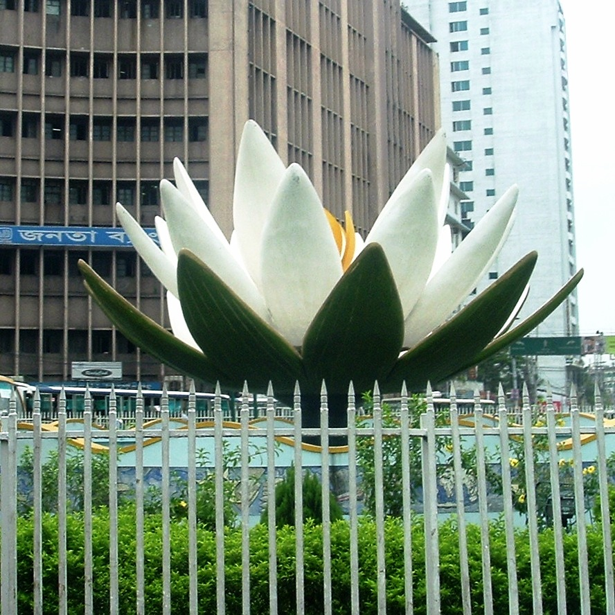 Shapla Chatwar, situated in a crossing of Dhaka's commercial area, in front of Bangladesh bank.